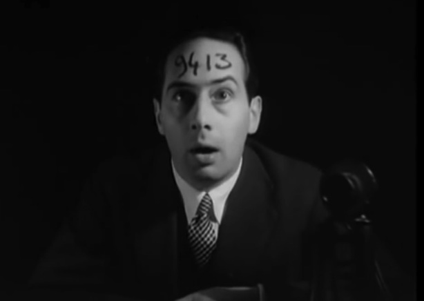 Jules Raucourt stars as Extra #9413 in The Life and Death of 9413: a Hollywood Extra (1928).